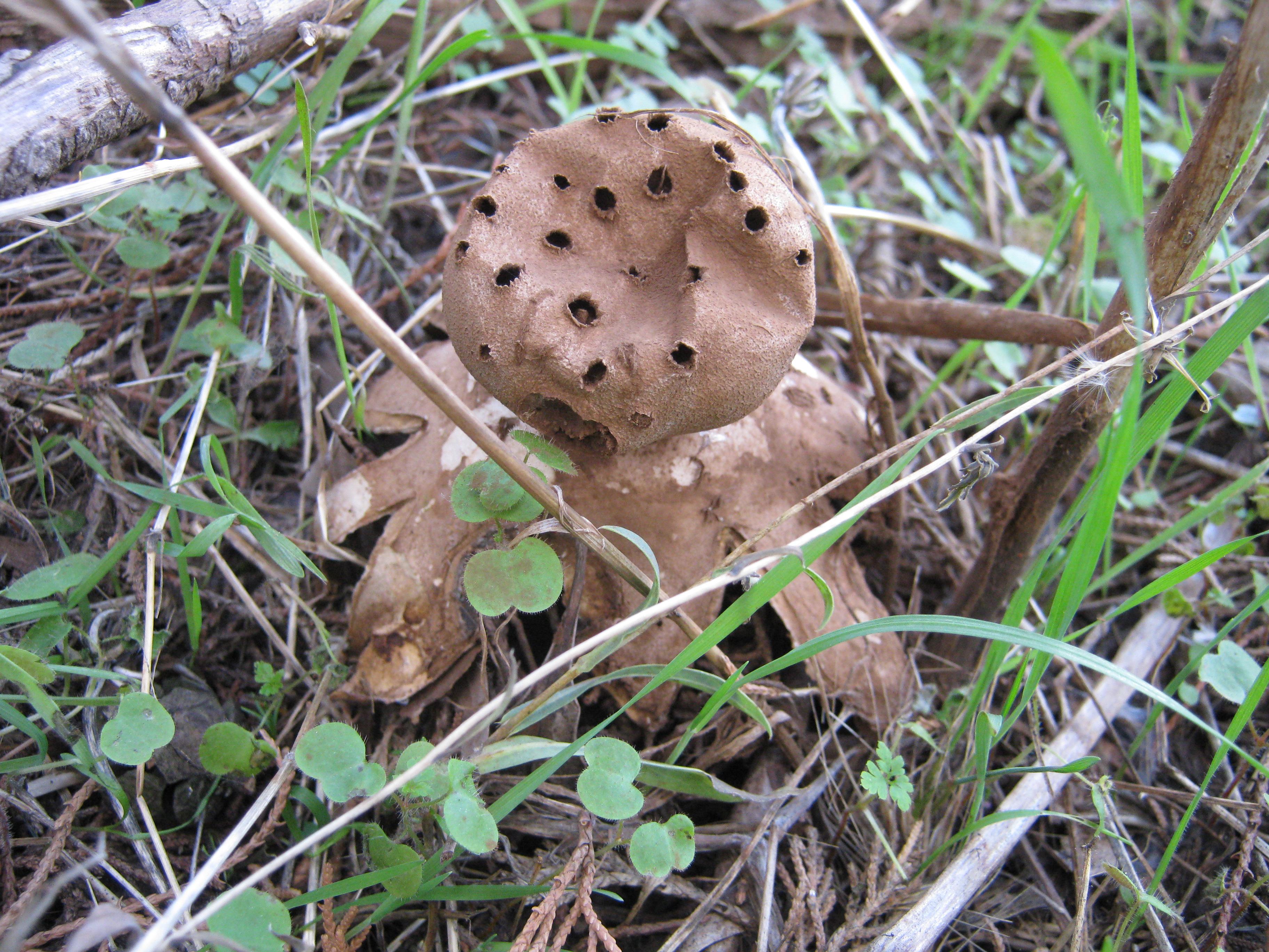 Myriostoma coliforme (Dicks.) Corda Image location: Parque de Monsanto, Lisboa, Portugal Taking into account Darv’s comment to the Observation MO79593 I decided to create two new observations of Myriostoma coliforme (this one and MO79680) with the material that I have from last year and that for some reason that I can’t explain why were not included in due time, and where not all are perfect specimens. I hope these illustrate well the characteristics of this rather strange species. Recognized by sight For more information about this, see the observation page at Mushroom Observer.